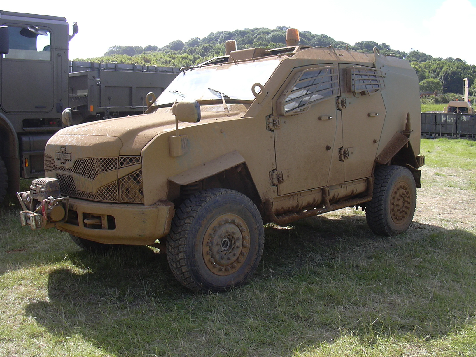 Oshkosh SandCat as seen at the DVD show, Millbrook, UK.